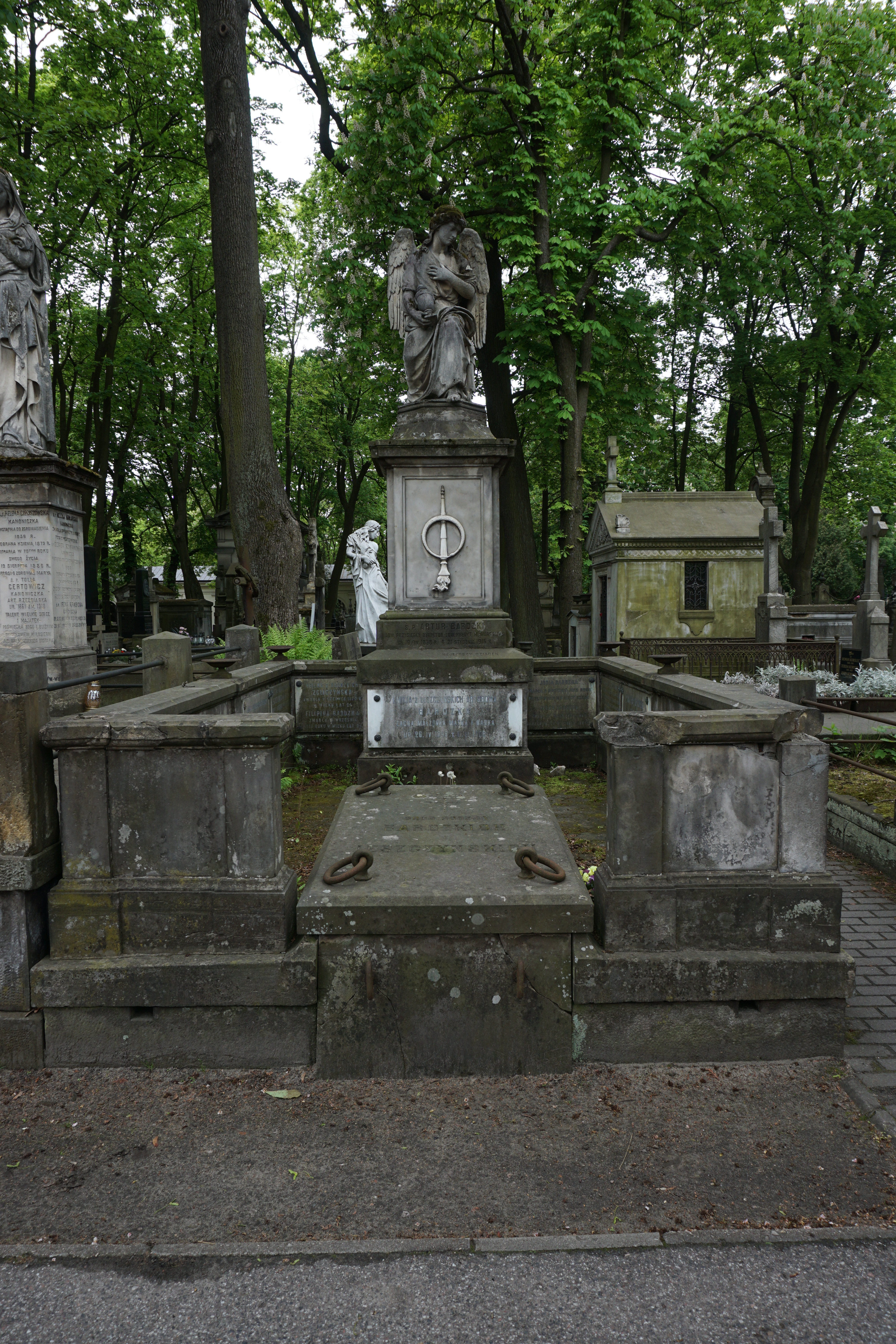 The grave of Władysław Orłowski at the Powązki Cemetery (section 19, row 4, grave 1, 2, 3)